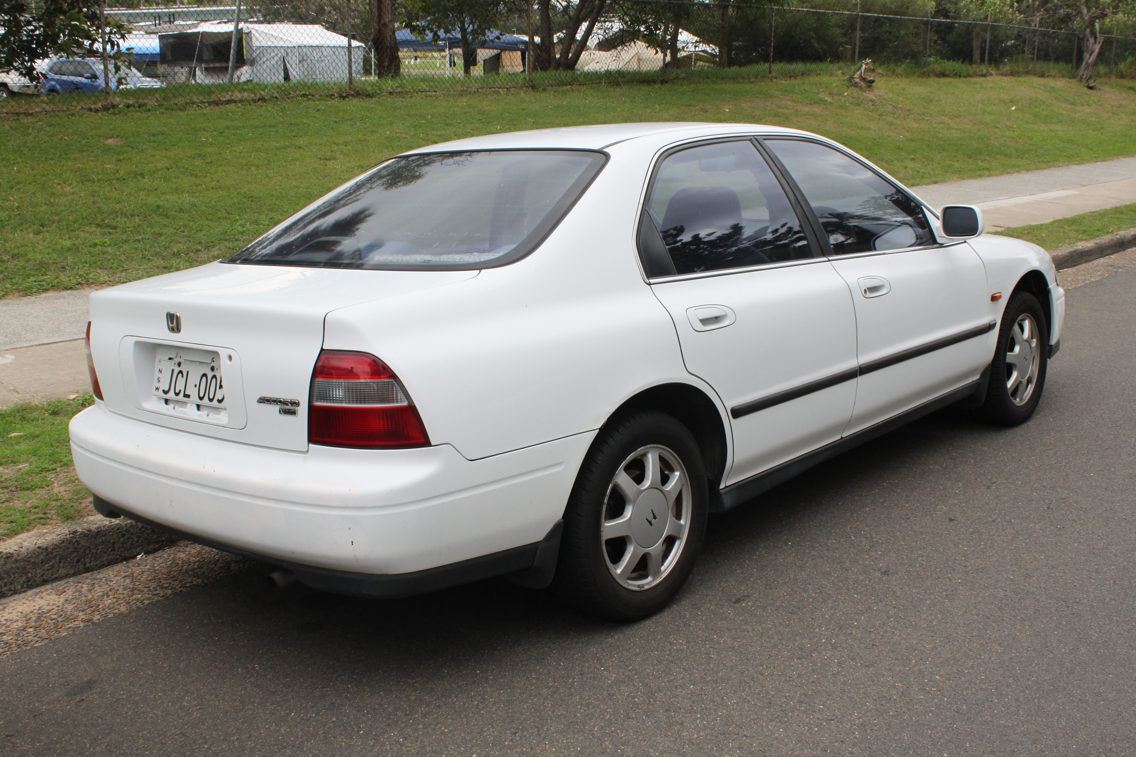 1994 Honda Accord VTi